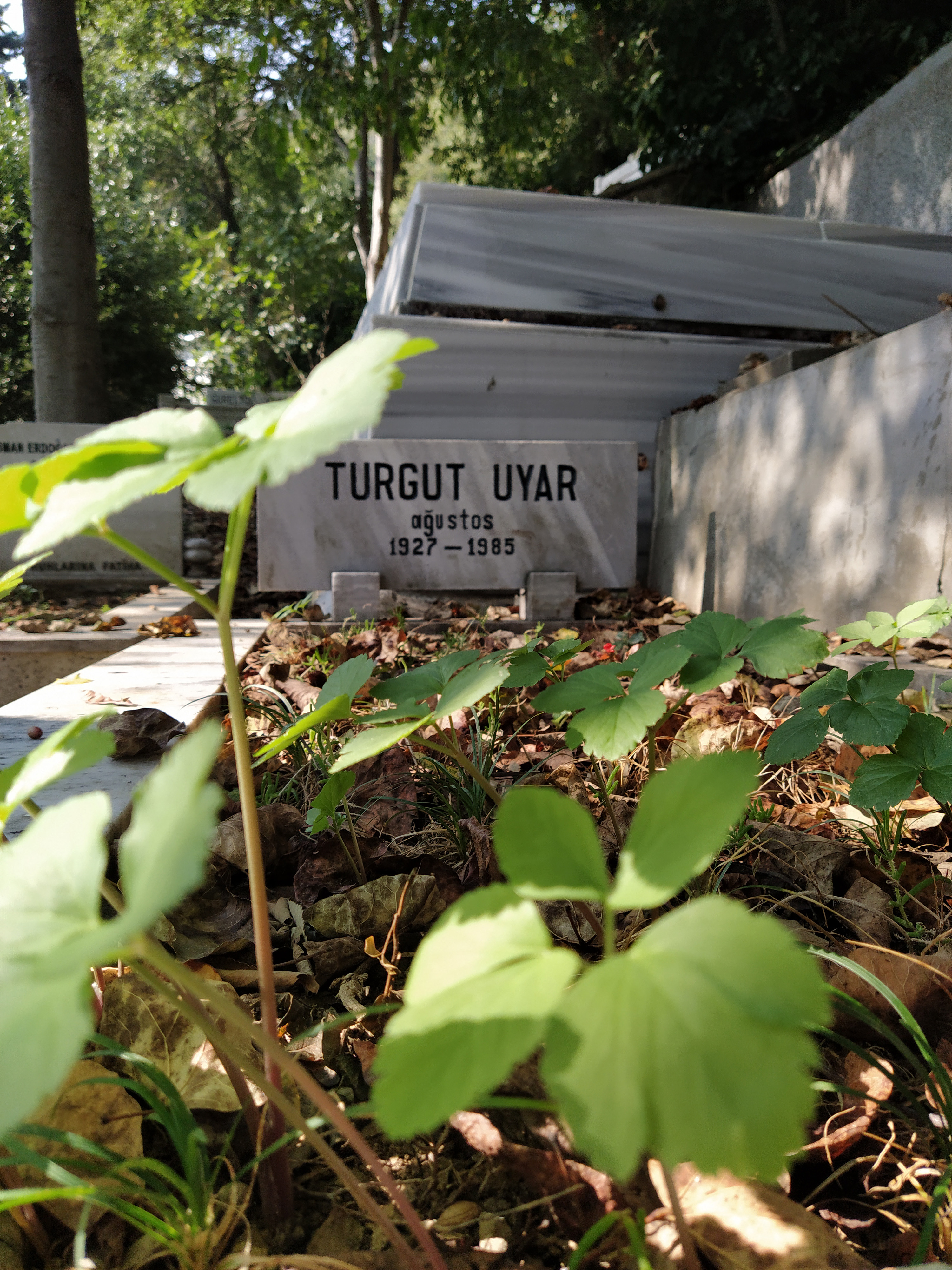 Poet Turgut Uyar's tomb at Aşiyan Cemetery.